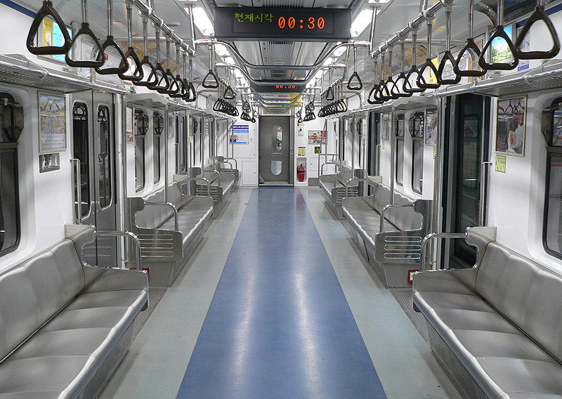 Inside of Seoul Subway Line1 VVVF Train (belonging to SeoulMetro)